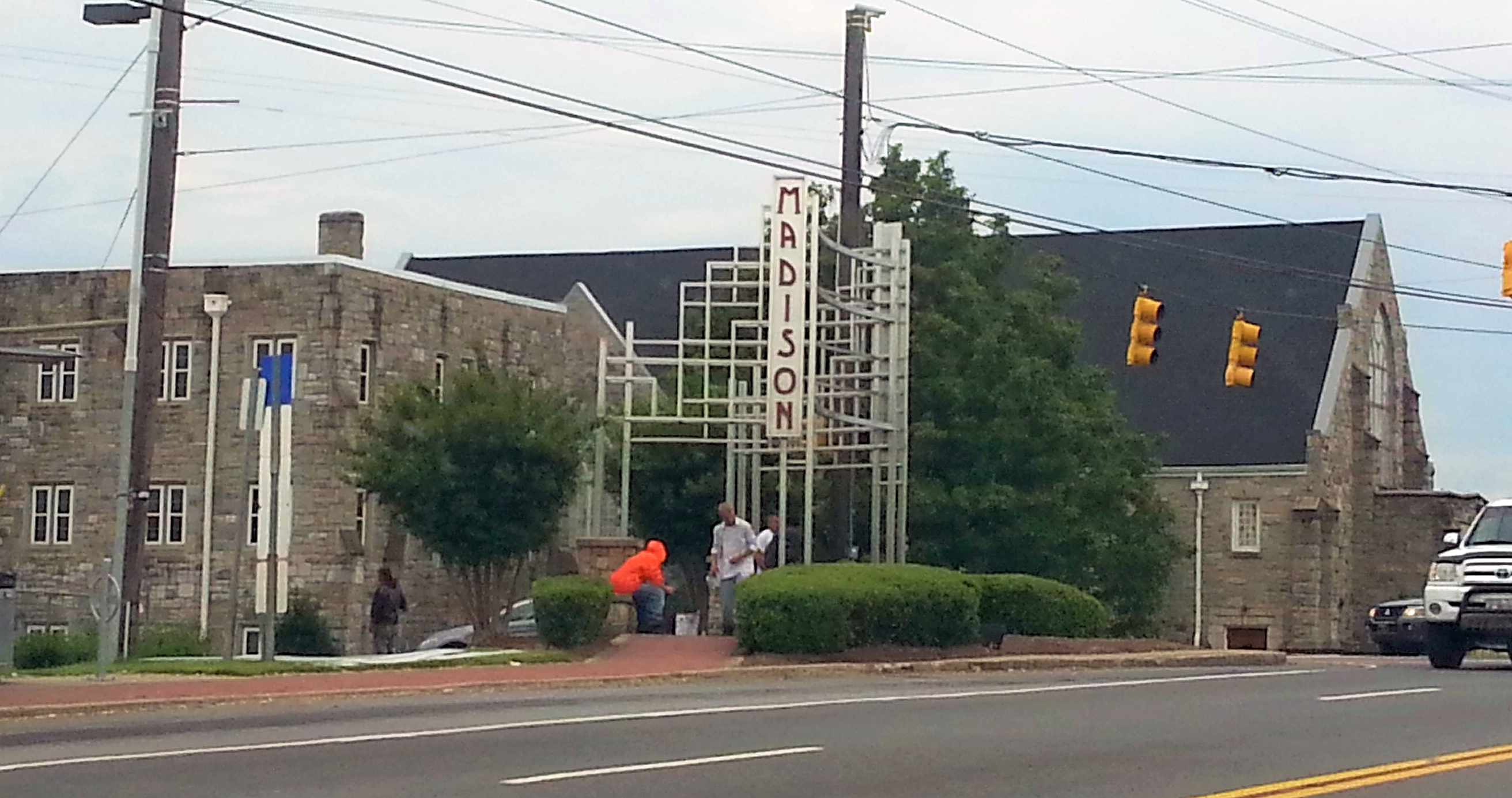 Photo of a sign marking downtown Madison.